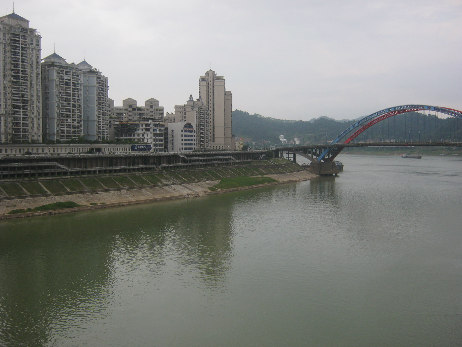 Wuzhou in2013